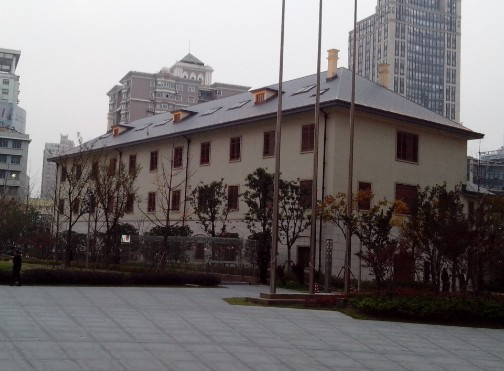 the former site of Zi-Ka-Wei Convent des Carmelites in Shanghai. rebuilded in 2008